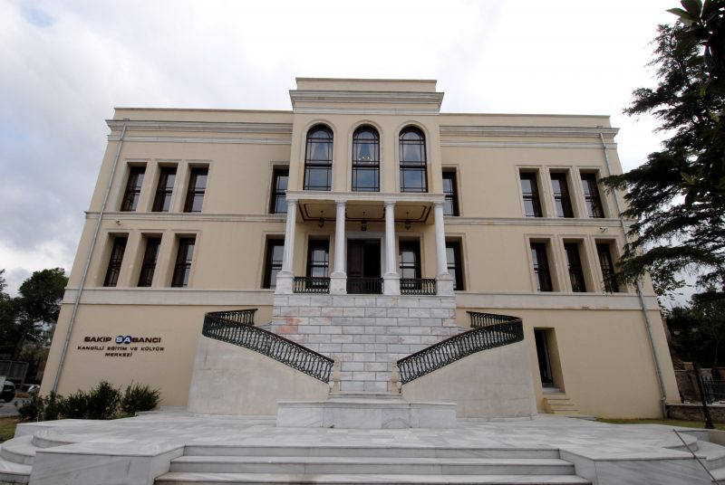 AdileSultanPalace